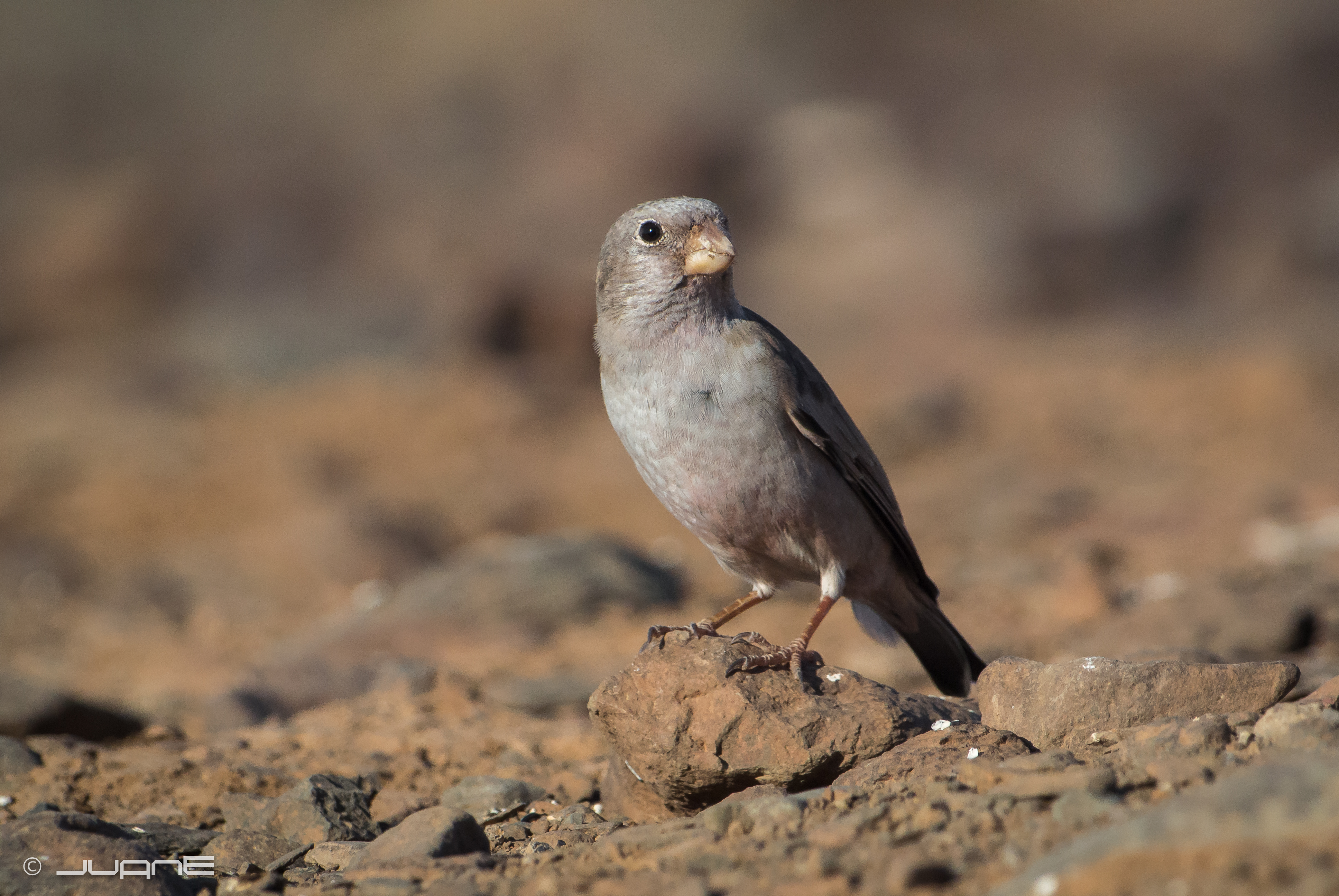 Camachuelo trompetero / Trumpeter Finch Bucanetes githagineus amantum, El Castillo del Romeral, Gran Canaria, Canary Islands, Spain